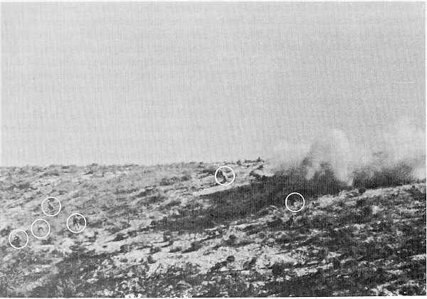 US Troops of K Company, 21st Infantry under attack on Hill 99, September 2 1950 during the Korean War.